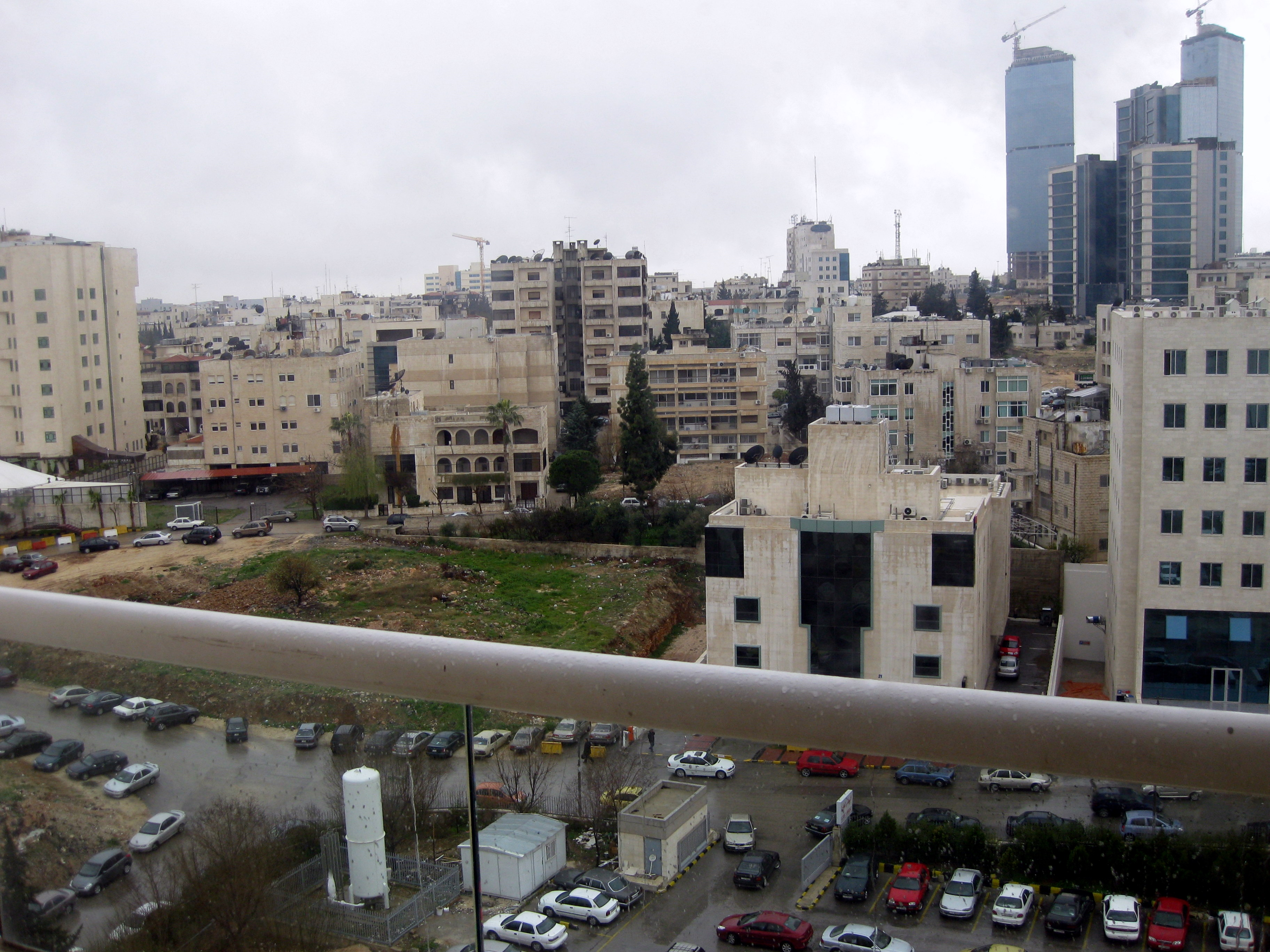 Amman Gate, shot taken from the 6th floor of the Arab Medical Center in Amman